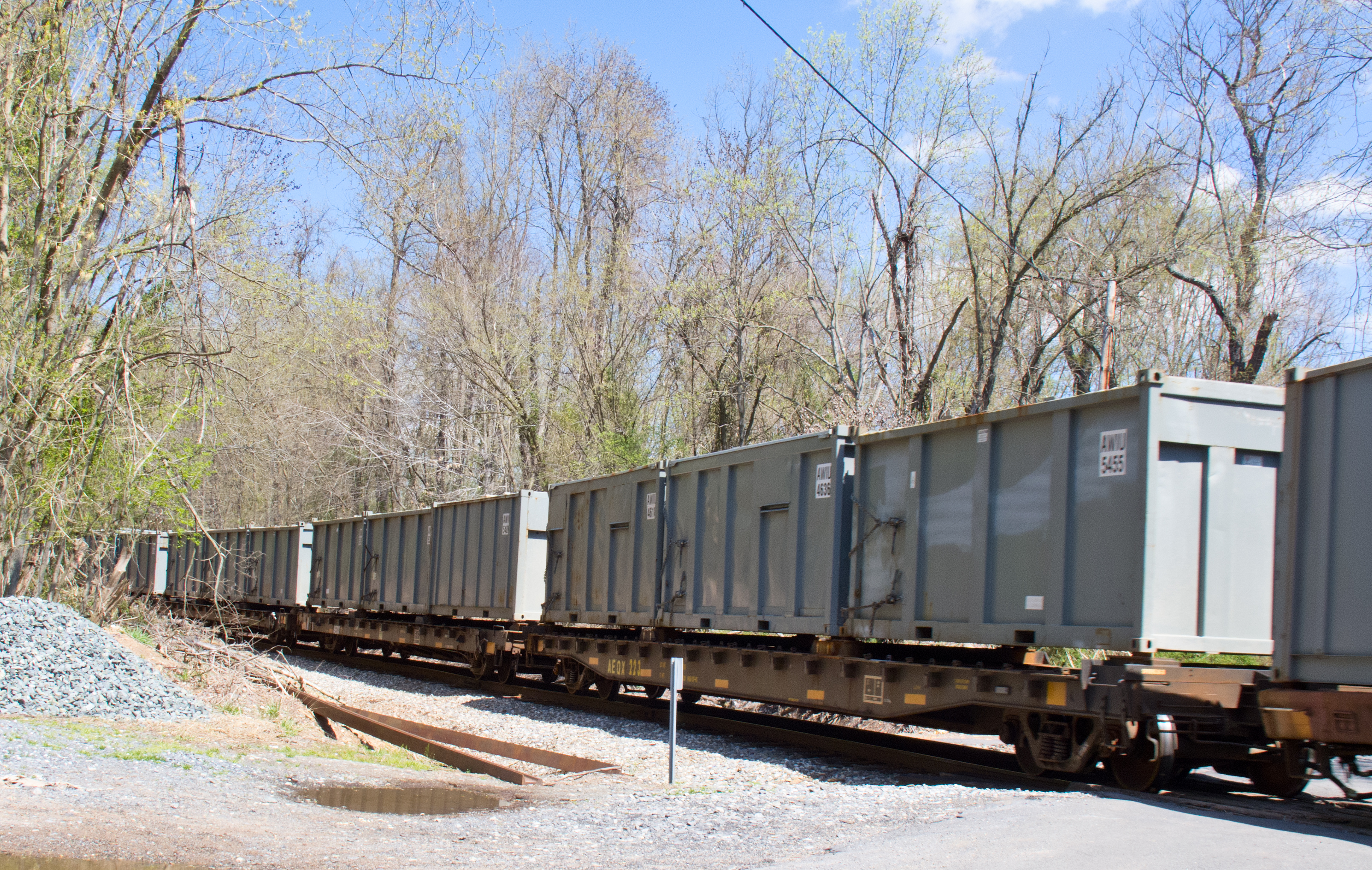 This CSX train is leaving the power plant in Dickerson Maryland and going back to the solid waste transfer station in Derwood (Metropolitan subdivision). It carries refuse to the power plant.